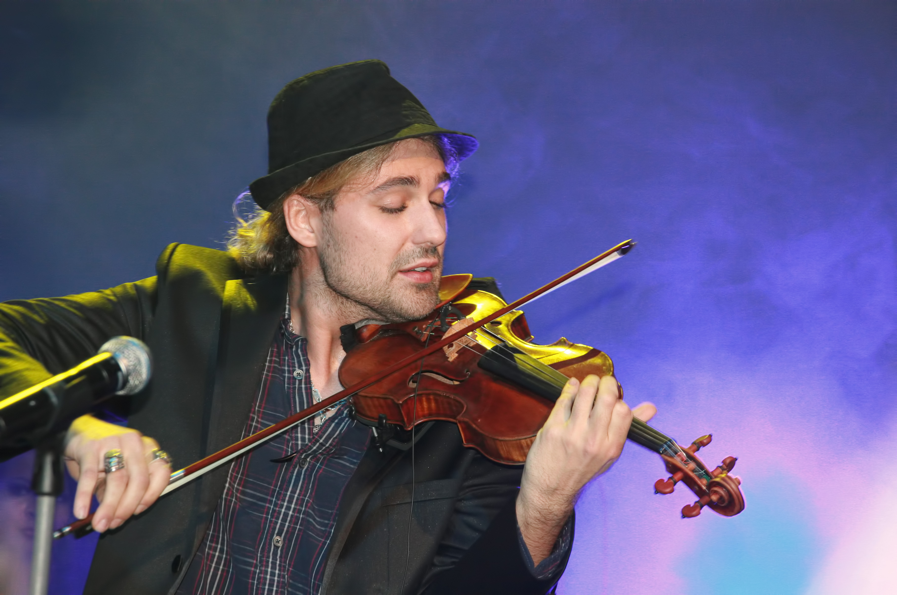 David Garrett in February 2010